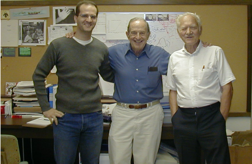 In this photo, we have two of the early pioneers of radar meteorology: David Atlas (center) and Roger Lhermitte (right).